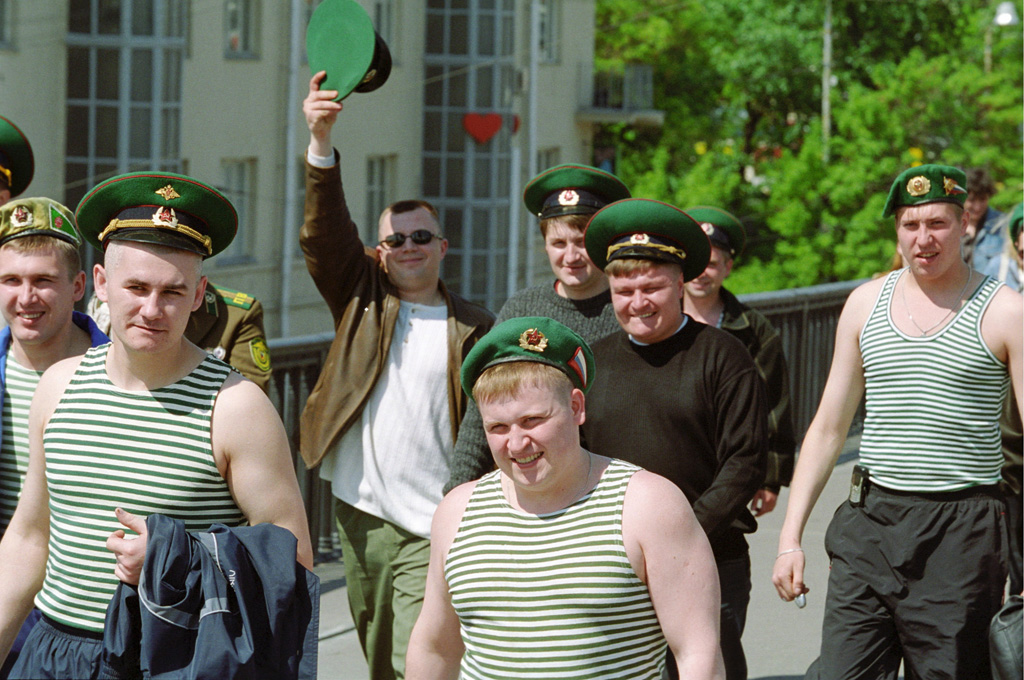 “Frontier Guards Day”. Frontier Guards Day